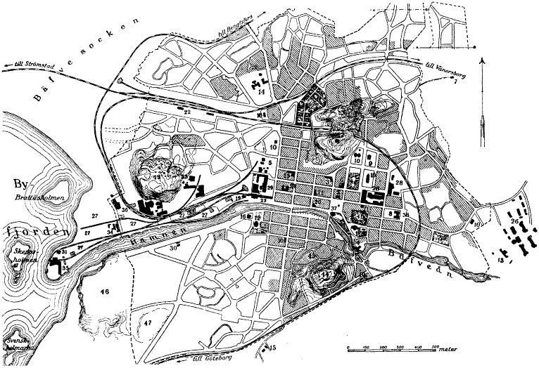 Map of Category:Uddevalla during the early 20th century